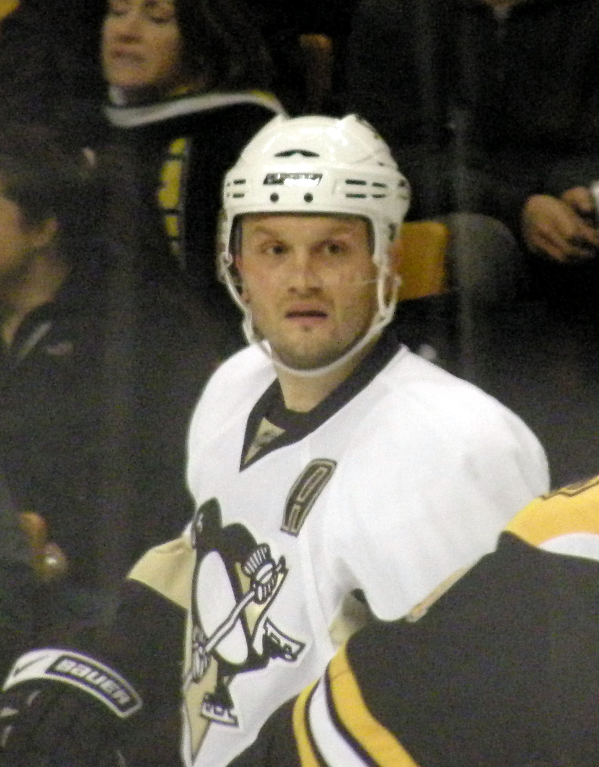 55 Sergei Gonchar (D) of the Pittsburgh Penguins